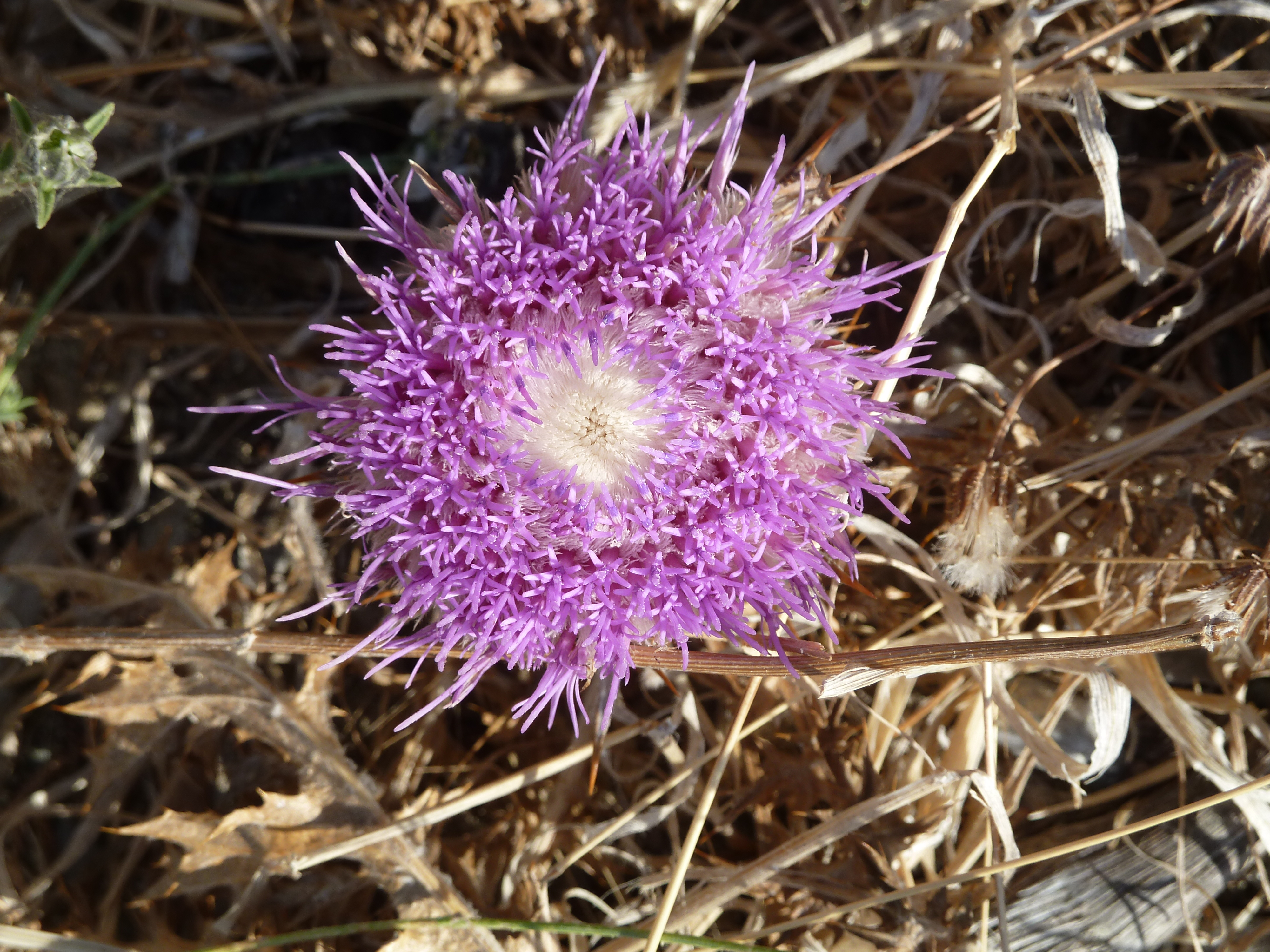 Carlina gummifera (syn. Atracylis gummifera, det. user:RLJ), Rodos, Greece August 2013